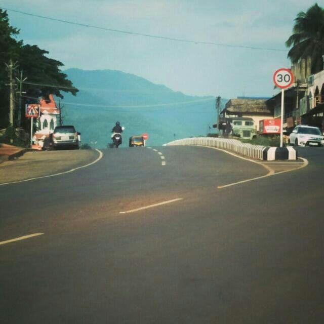 My creation